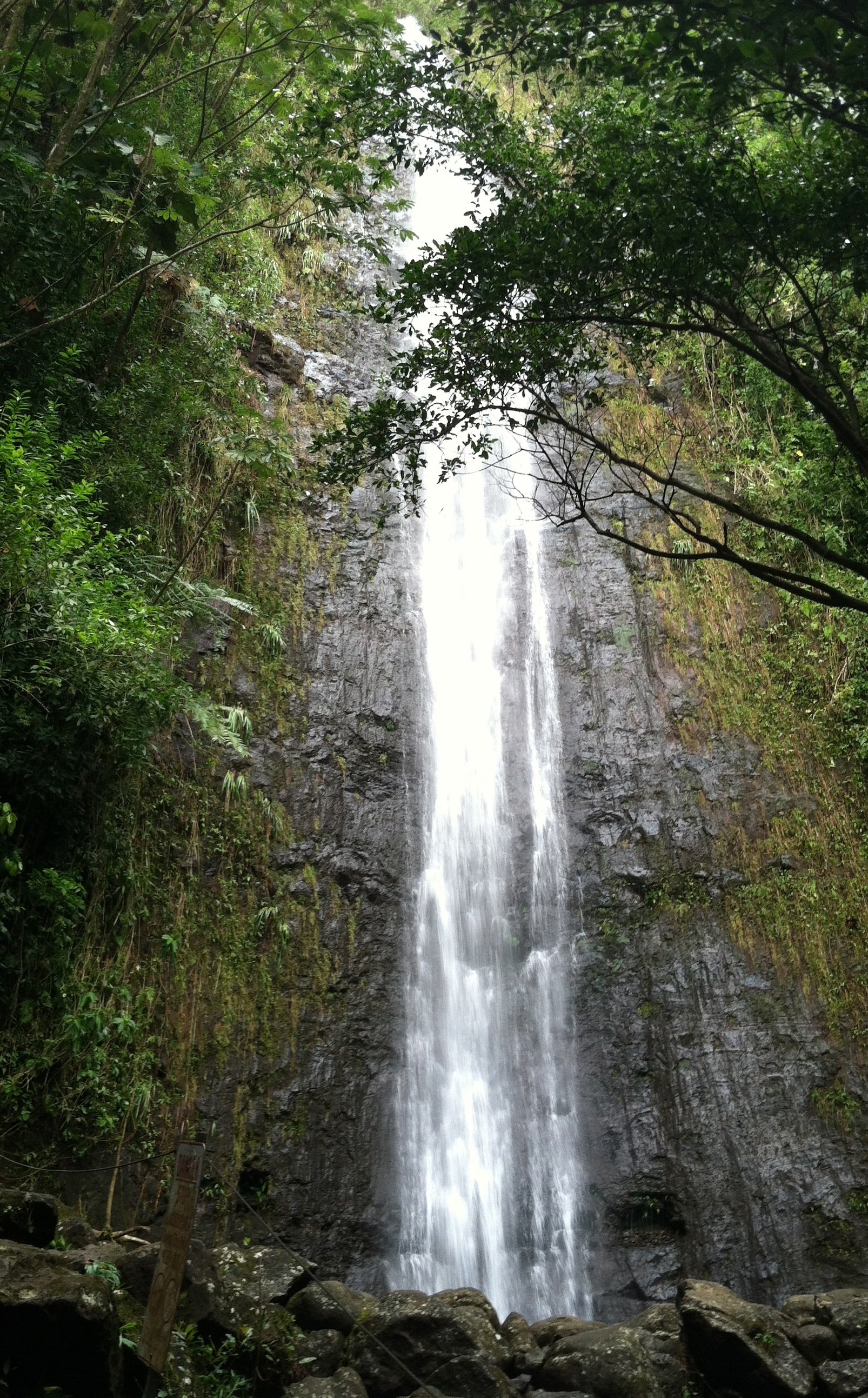 Manoa Falls, photo taken after heavy rain falls.